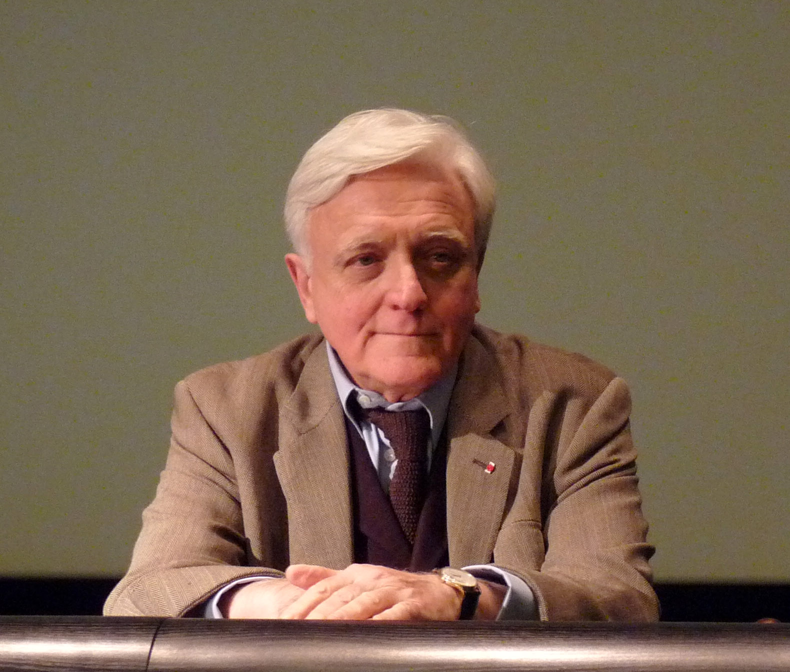 Israeli historian and diplomat Elie Barnavi